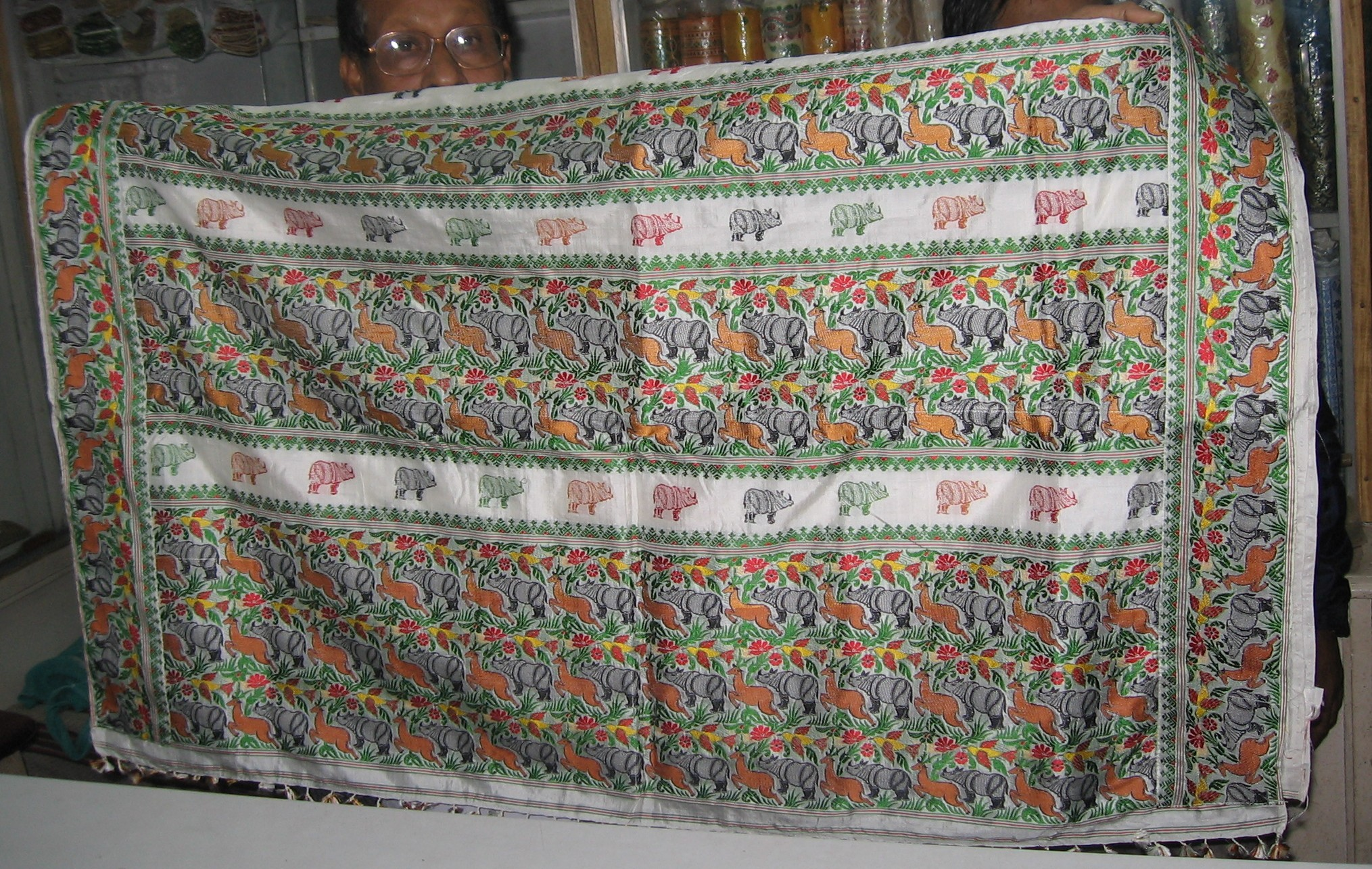 An Assamese Mekhela chador with a very detailed and colourful pattern depicting wildlife in Kaziranga National Park